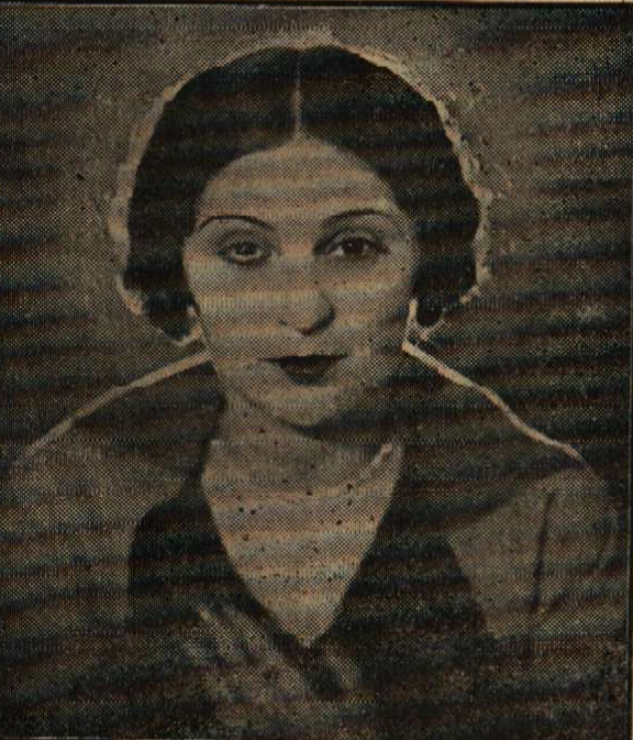 Bulgarian actress Angelina Georgieva (1904-1966).